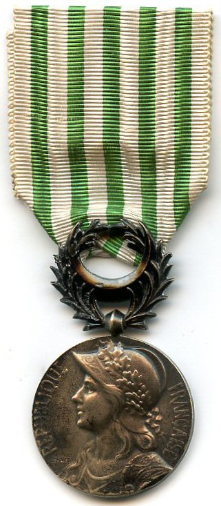 Dardanelles campaign medal (Gallipoli medal), France, 1926, obverse